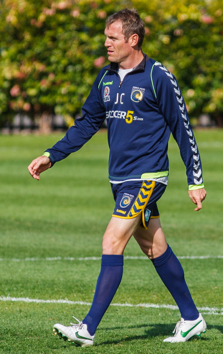 John Crawley coaching before a pre-season game between the Central Coast Mariners and Melbourne Victory on 16/09/2012.